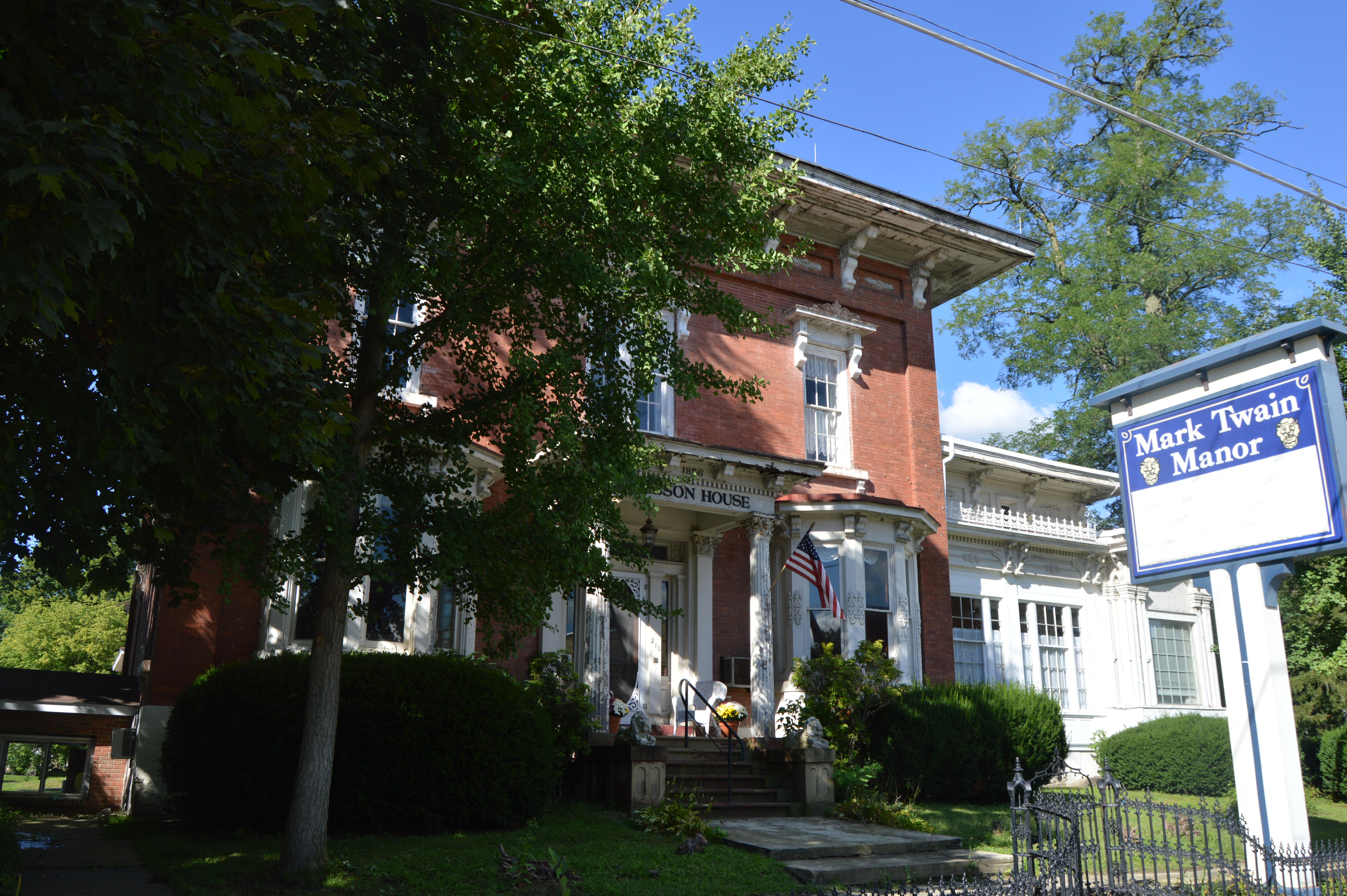 Front of the Gibson House, located at 210 Liberty Street (U.S. Route 322/Pennsylvania Route 58) in Jamestown, Pennsylvania, United States. Built in 1855, it is listed on the National Register of Historic Places.